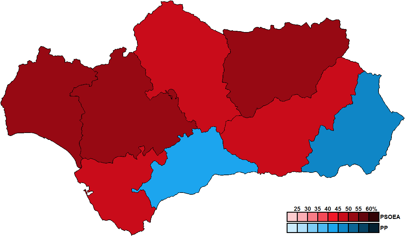 Provincial results for the 2008 Andalusian regional election.